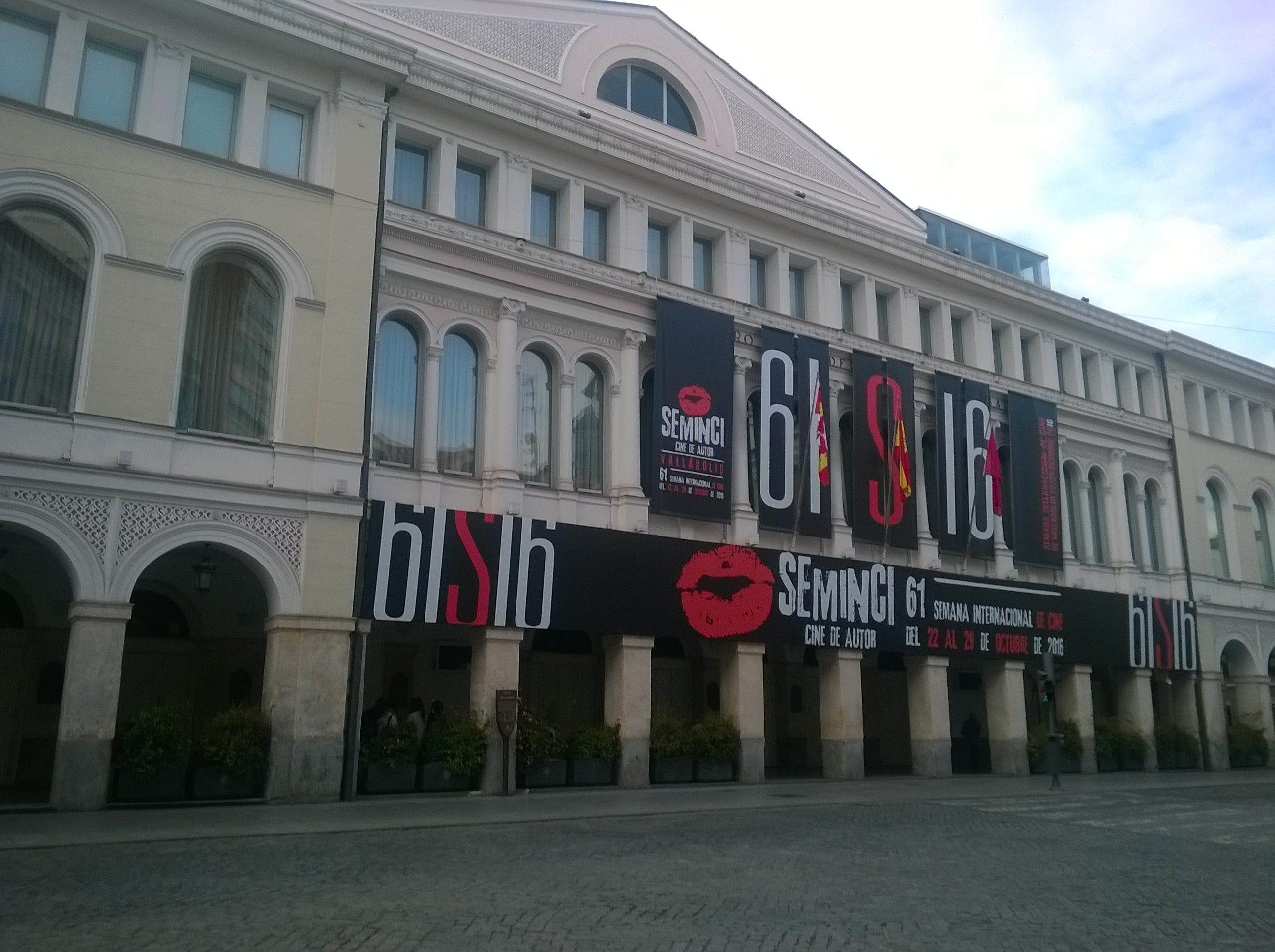 Outside of the Teatro Calderón in Valladolid (Spain) during the 61th Seminci (2016)